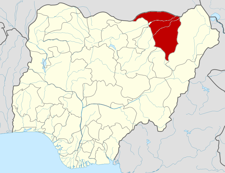 Map locator of Nigeria.